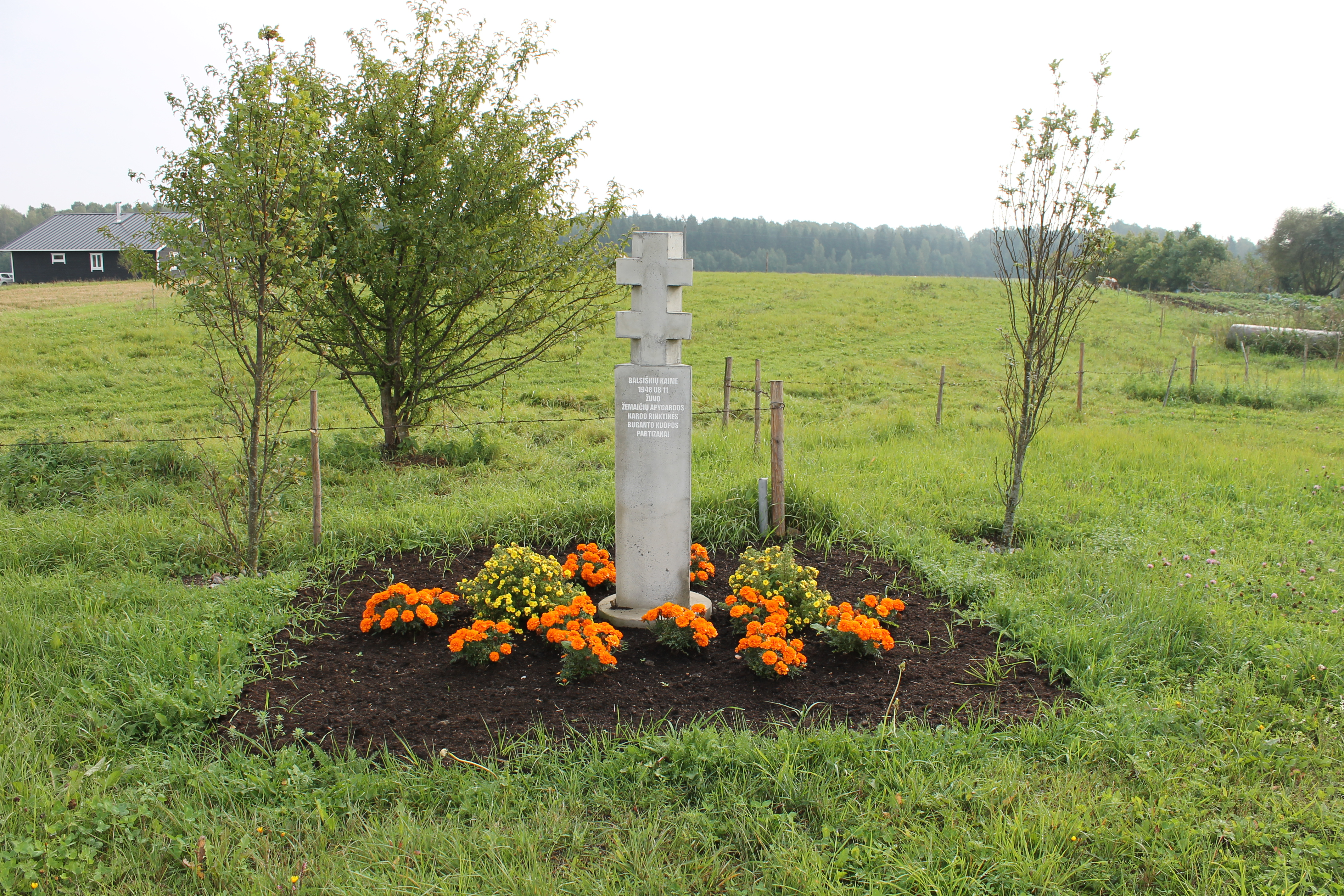 Balsiškiai monument, Kretinga district, LithuaniaLietuvių: Balsiškių paminklas partizanams, Kretingos rajonas, Lietuva